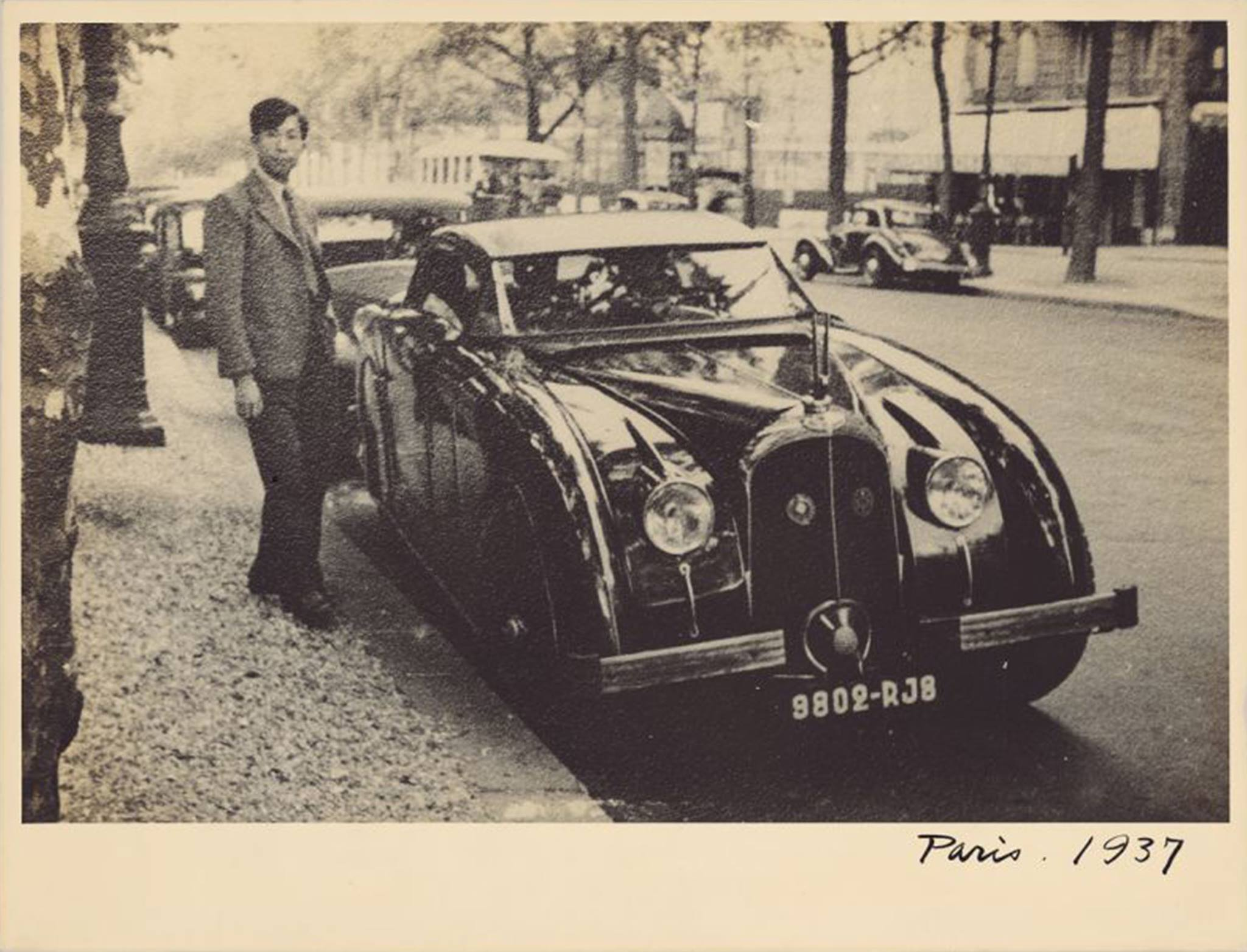 Wang Da-hong in Paris 1937, he was a chinese architect that around 1936 studied in Switzerland. The car is a Voisin C28 "Aerosport"(license "9802-RJ8", same car here: [1])